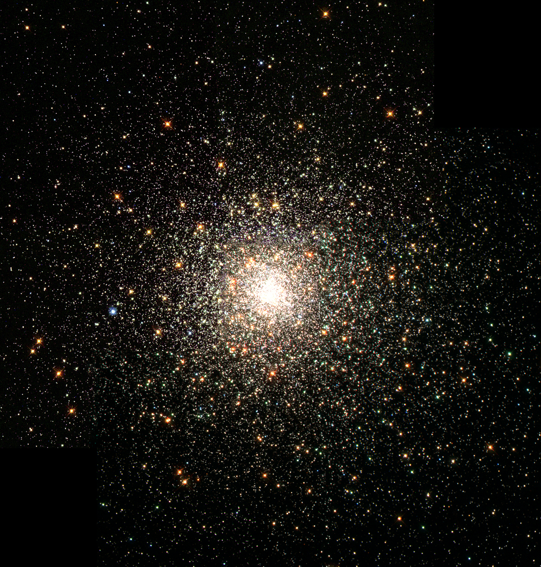 This stellar swarm is M80 (NGC 6093), one of the densest of the 147 known globular star clusters in the Milky Way galaxy. Located about 28,000 light-years from Earth, M80 contains hundreds of thousands of stars, all held together by their mutual gravitational attraction. Globular clusters are particularly useful for studying stellar evolution, since all of the stars in the cluster have the same age (about 12 billion years), but cover a range of stellar masses. Every star visible in this image is either more highly evolved than, or in a few rare cases more massive than, our own Sun. Especially obvious are the bright red giants, which are stars similar to the Sun in mass that are nearing the ends of their lives.